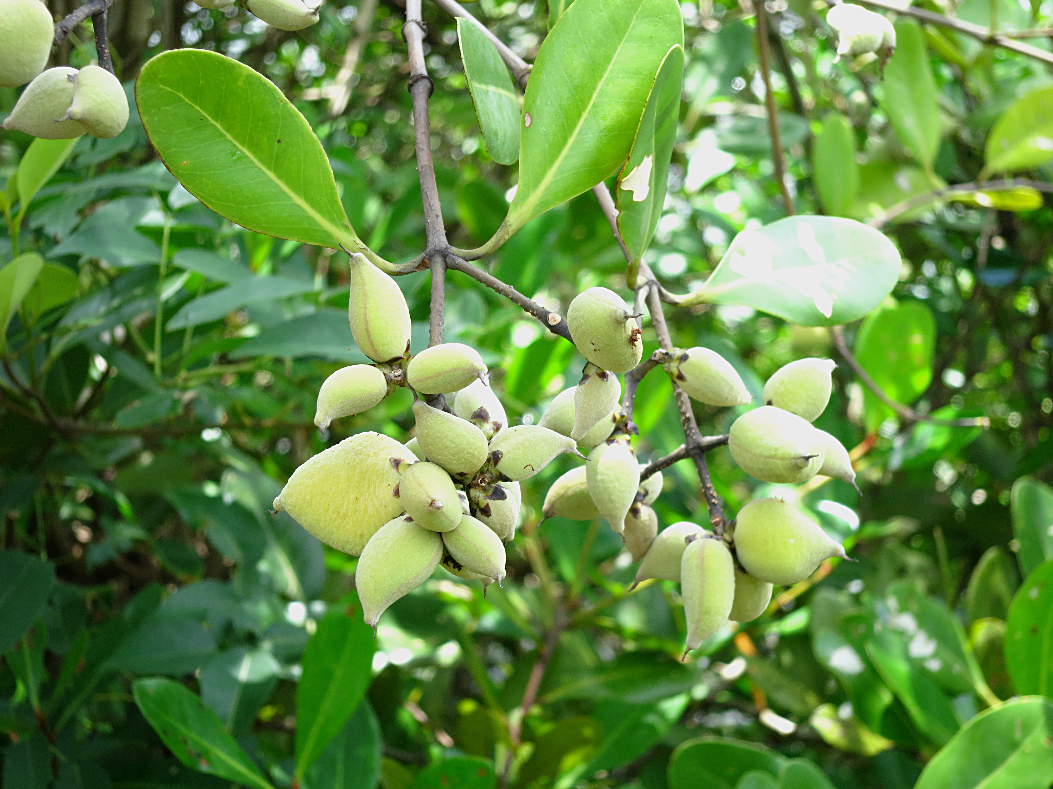 Avicennia officinalis is a species of mangrove